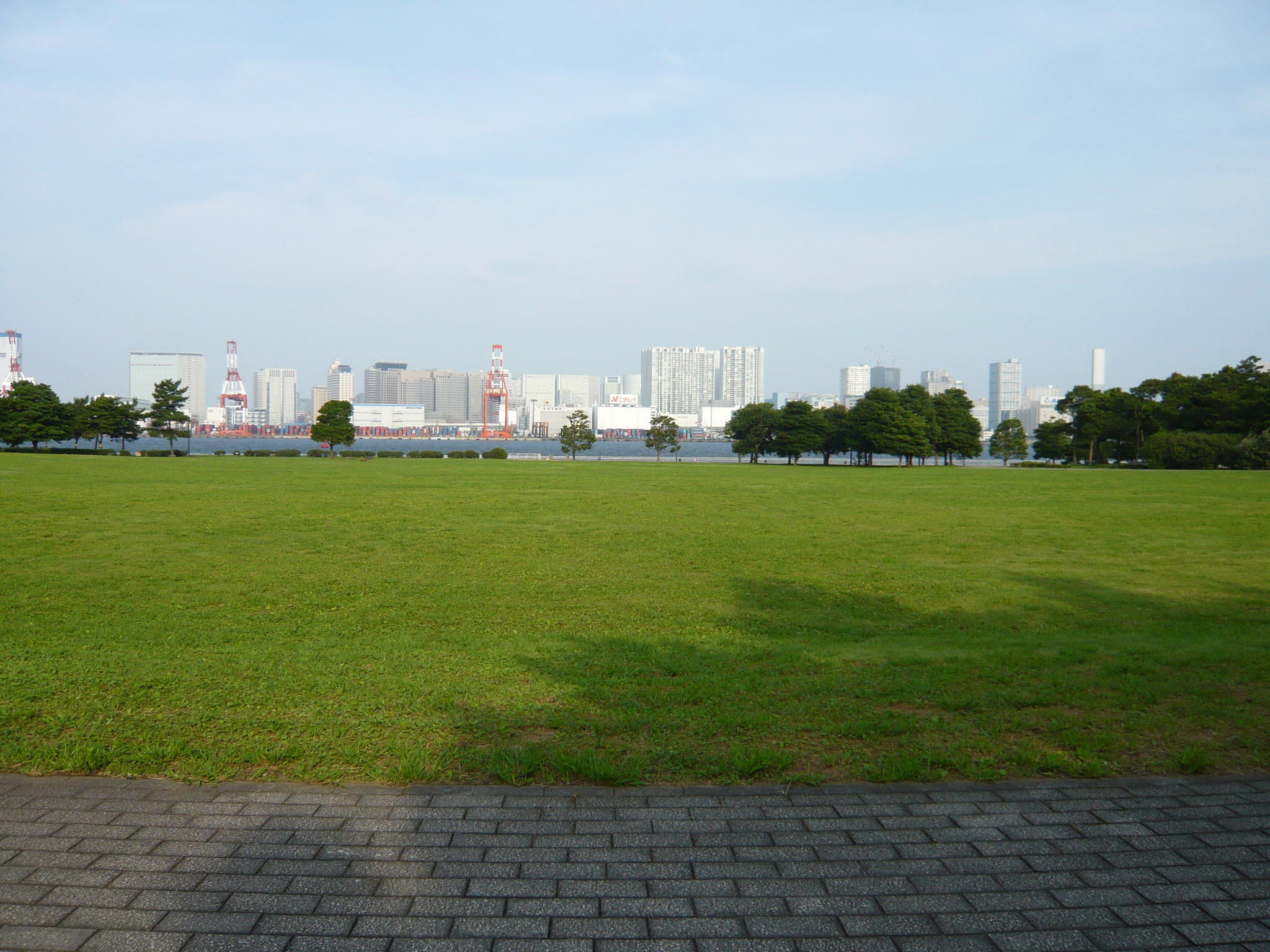 Shiokaze Park(潮風公園) in Shinagawa-ku,Tokyo,Japan.